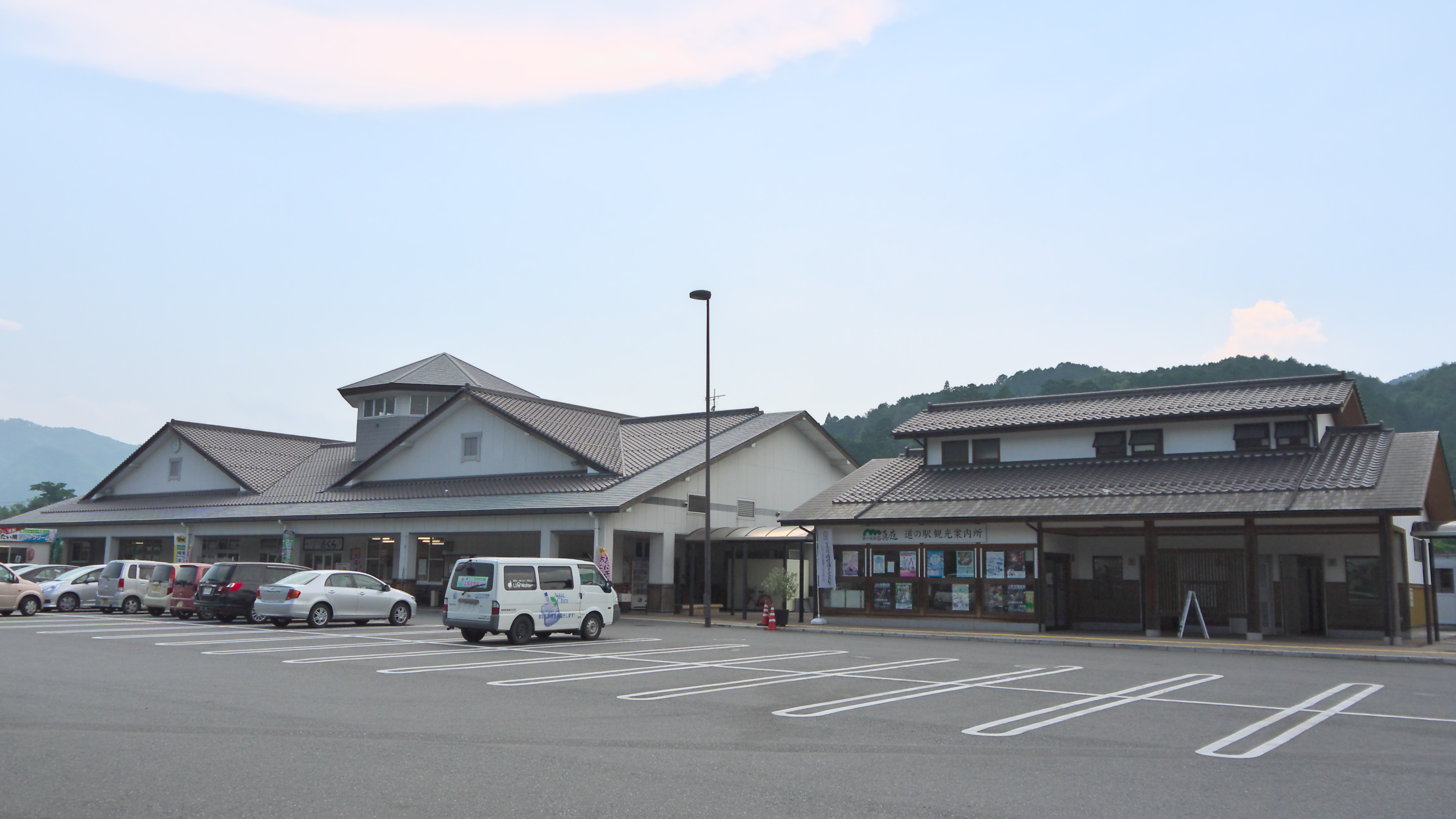 Michinoeki Daigo no sato in Maniwa City, Okayama Prefecture, Japan